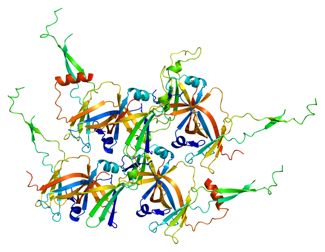 Structure of the GTF2F1 protein. Based on PyMOL rendering of PDB 1f3u.